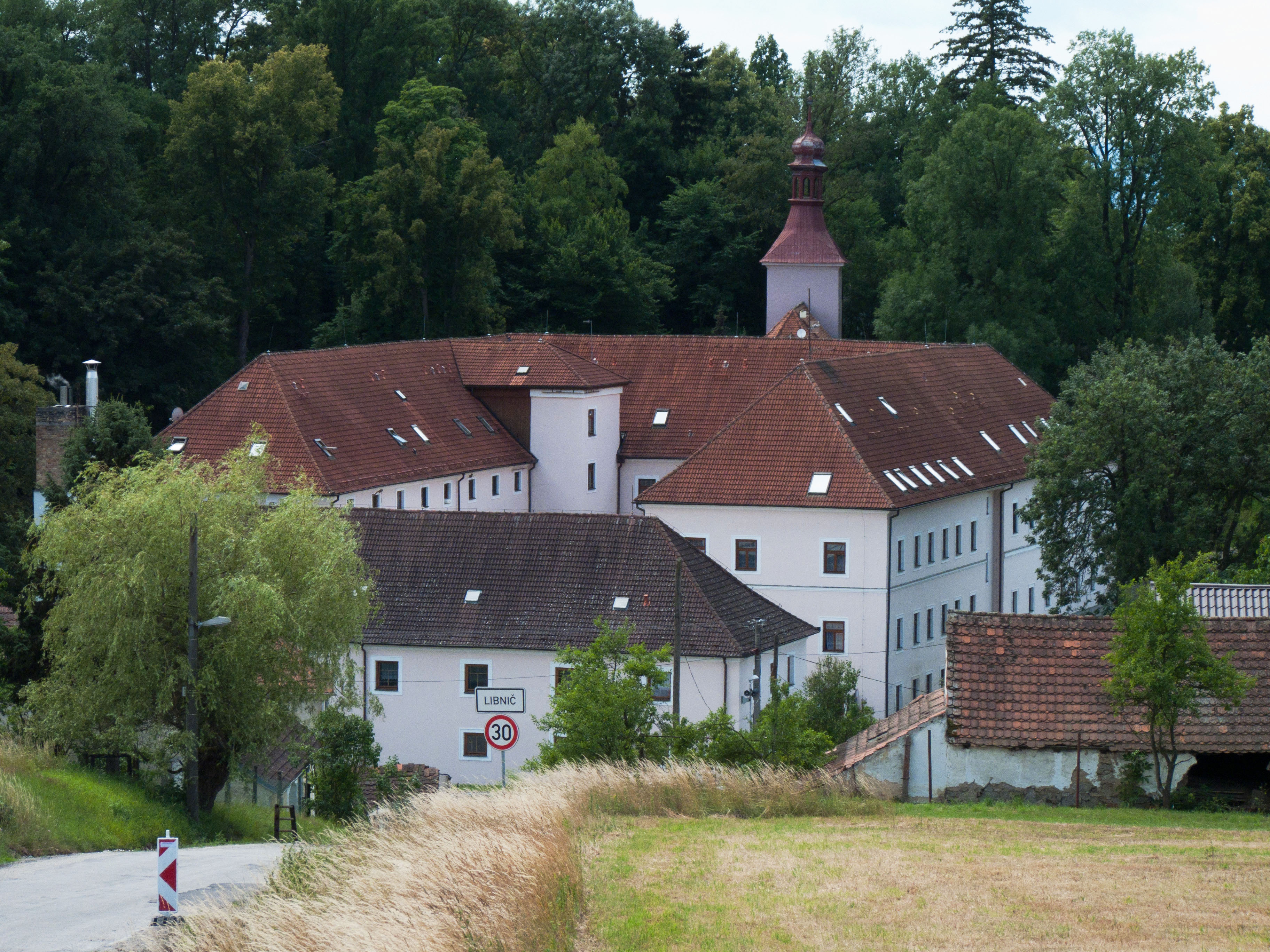 View of the former spa building (nowadays a retirement home) and the Holy Trinity church in the village of Libníč, České Budějovice District, Czech Republic.